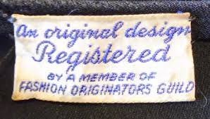 This is a label used by FOGA in connection with the violation of the FTC Act discussed in the article FTC v. FOGA Other information In Higgins v. Keuffel, 140 U.S. 428 (1891), the Supreme Court held that a simple word label without artistic ornamentation could not be copyrighted. See to the same effect Kitchens of Sara Lee, Inc. v. Nifty Foods Corp., 266 F.2d 541, 544 (2d Cir. 1959). This is such a label: a short phrase.